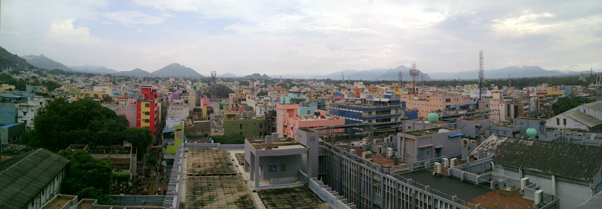 Panoramic view of city from CMC Hospital